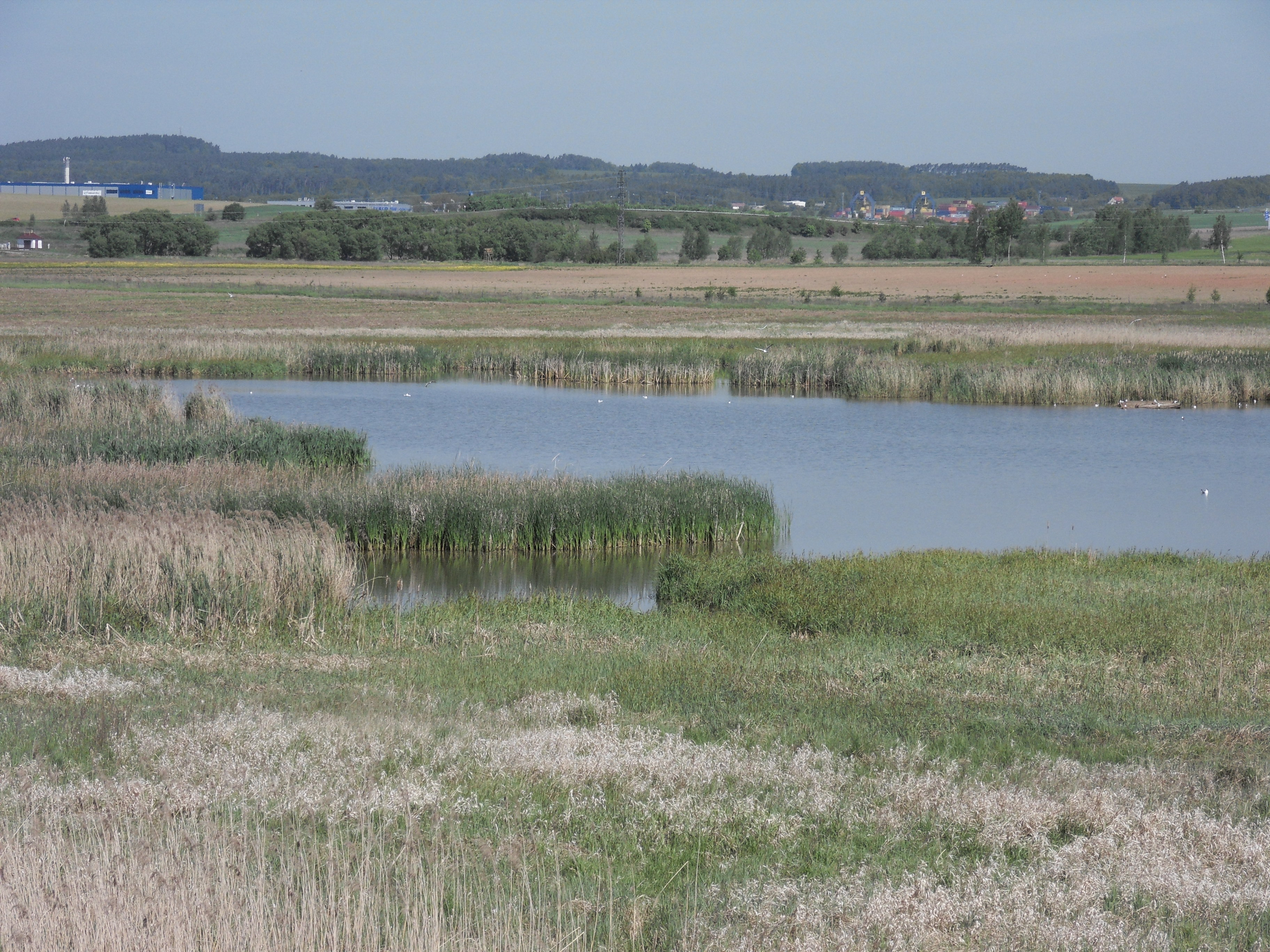 Natural reserve Nový rybník located between the villages Úherce and Líně in Plzeň-sever District, Czech Republic.